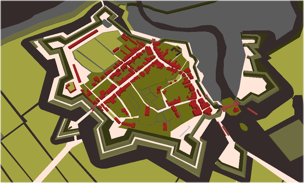 Reconstruction fortifications city Delfzijl in 1814